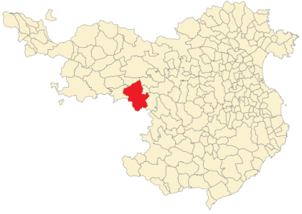 Valle de Bas